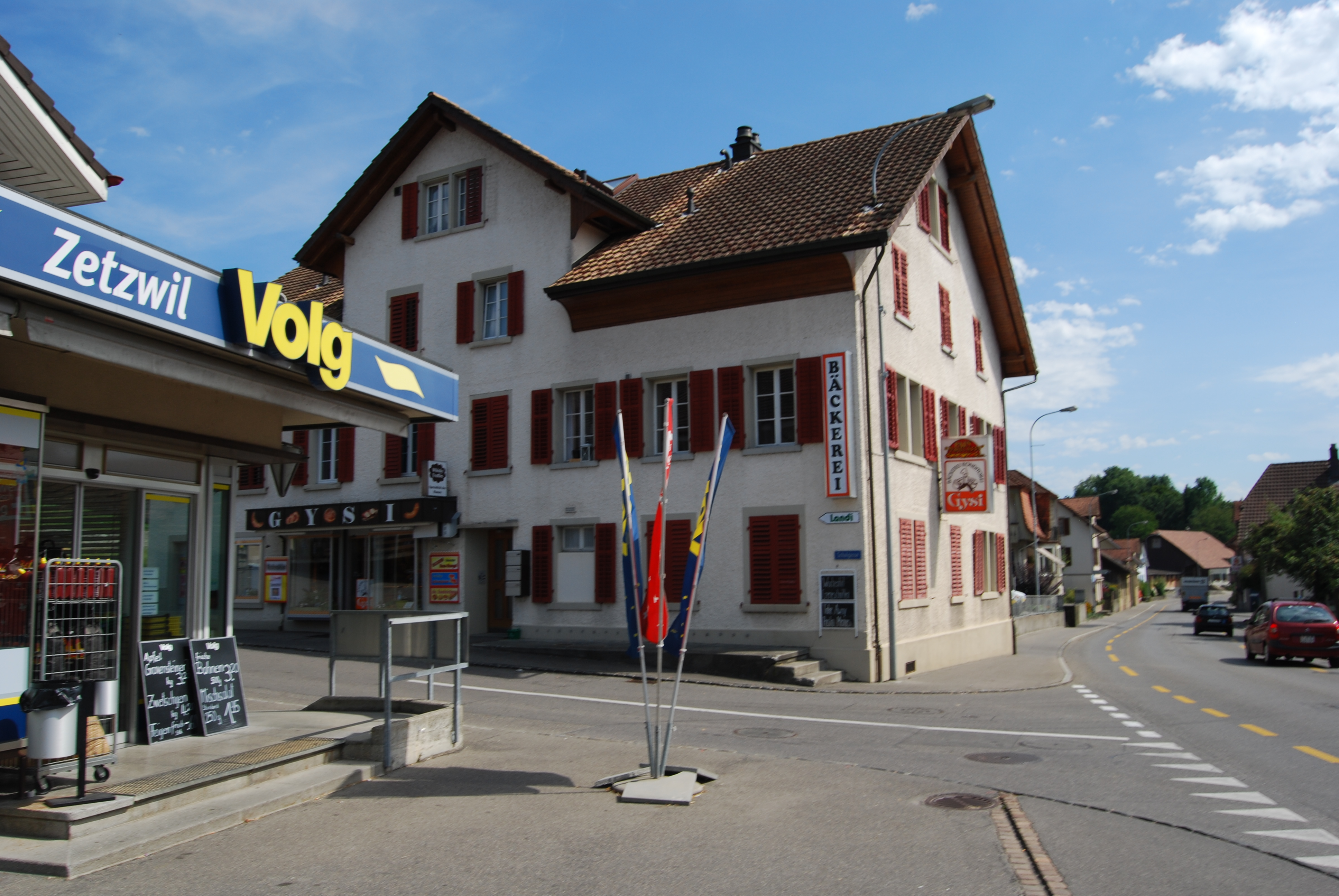 Zetzwil, canton of Aargau, SwitzerlandEsperanto: Zetzwil, Kantono Argovio, Svislando